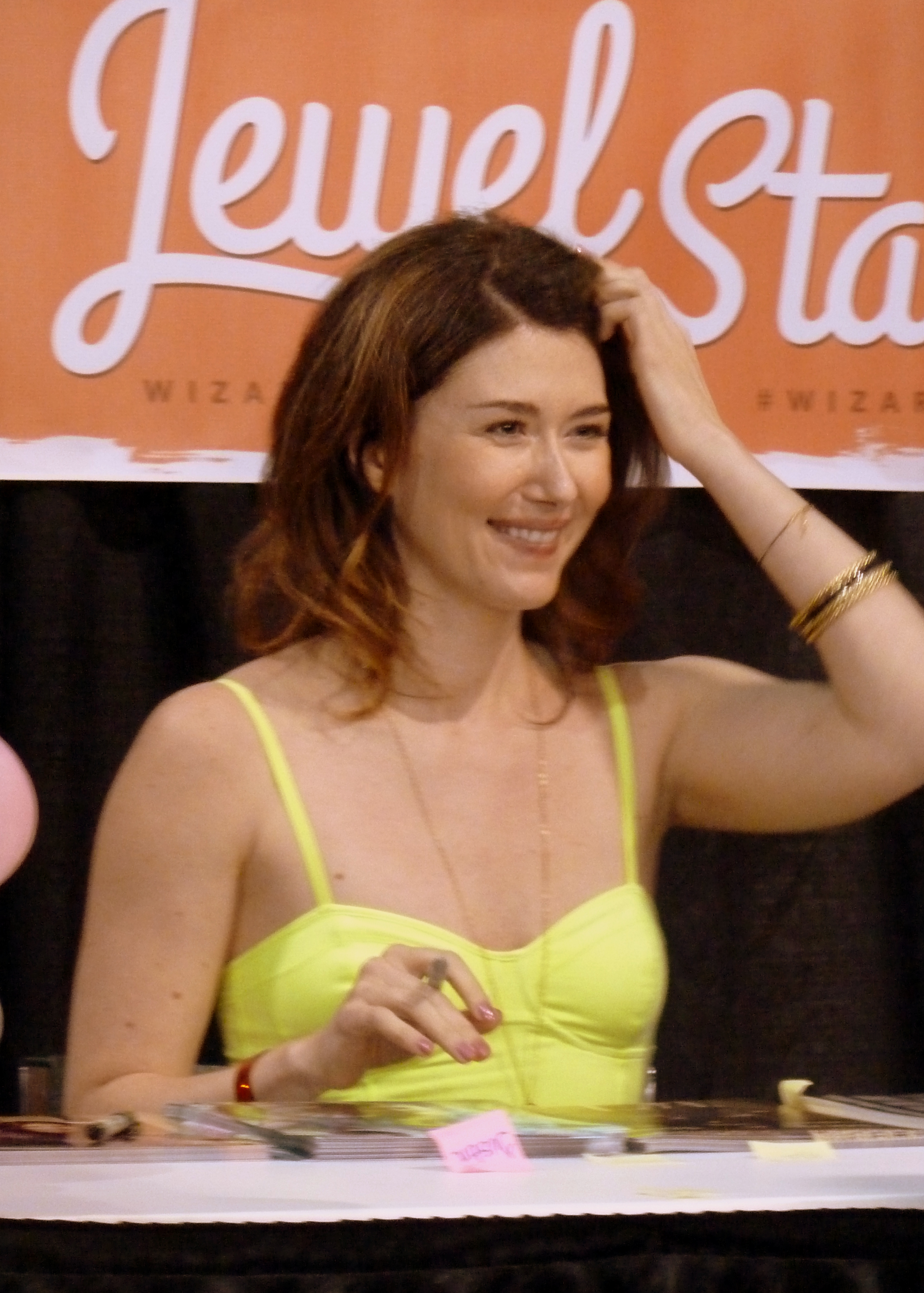 Wizard World Philadelphia 2013